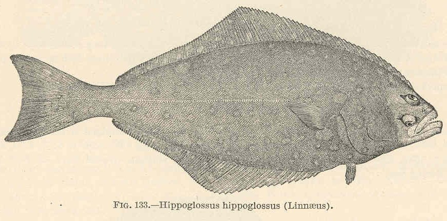 Hippoglossus hippoglossus Subject: Atlantic halibut Tag: Fish